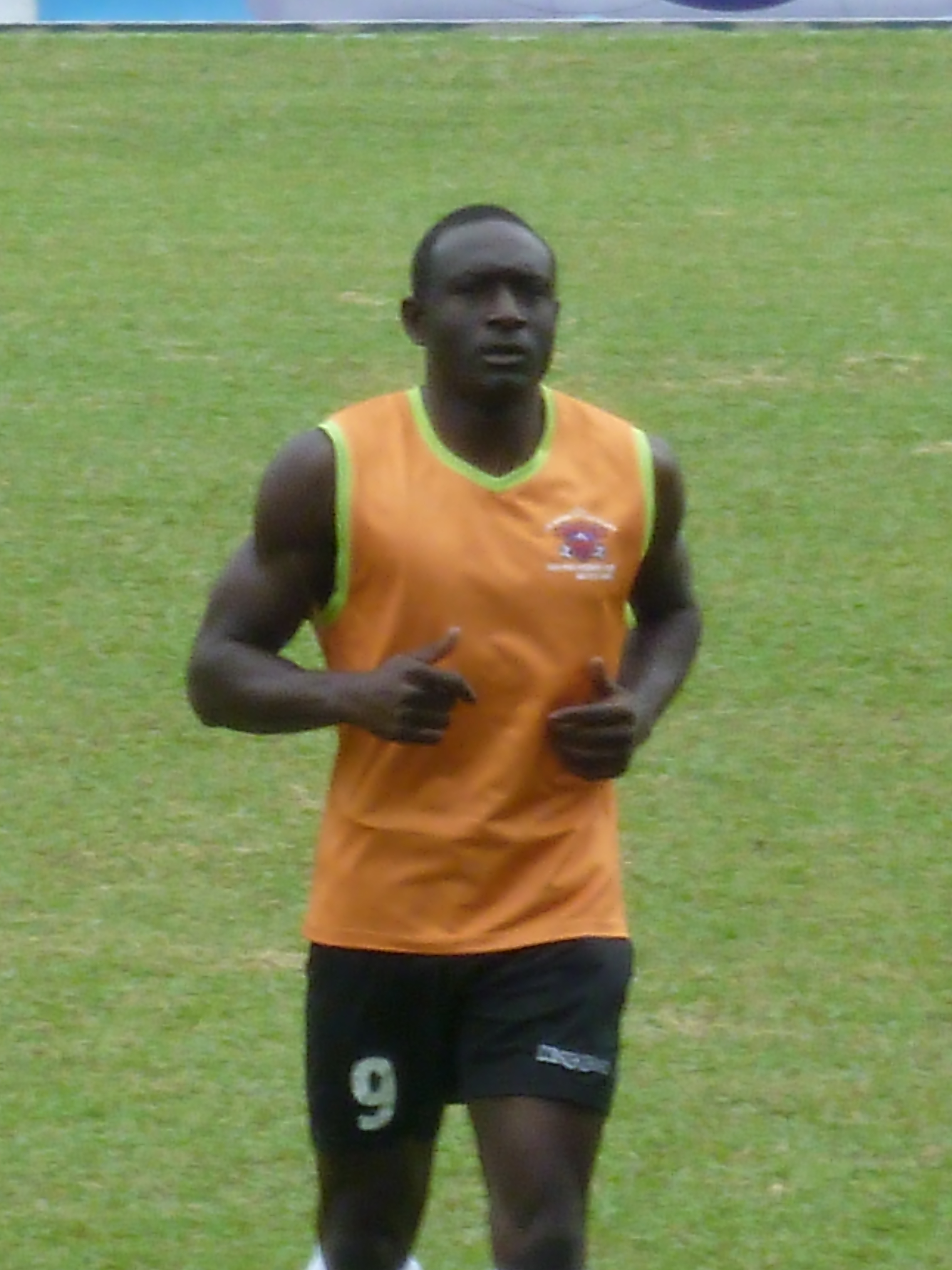 Guy Madjo (29 Sept 2013, Hong Kong First Division League, Rangers vs Tuen Mun, Sham Shui Po Sports Ground) 中文（香港）: 馬喬 (29 Sept 2013, 香港甲組足球聯賽, 流浪 vs 屯門, 深水埗運動場)